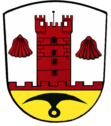 Coat of Arms of Reisenburg in Günzburg